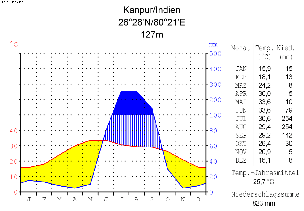 climate chart in the format by Walter and Lieth, metric, °Celsisus and millimeters, made with Geoklima 2.1